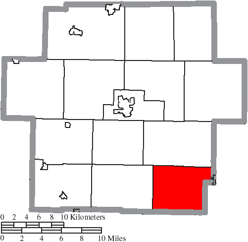 Map of the municipal and township boundaries of Carroll County, Ohio, United States, as of the 2000 census, with the location of Loudon Township highlighted. Township borders are shown only in unincorporated areas in order to differentiate incorporated and unincorporated areas more clearly.